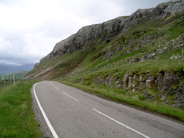 The road is the A835. The line of cliffs is , part of the Moine Thrust. Taken from just NE of the visitors' centre.